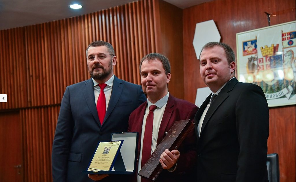 Viktor Lazić receiving the title of honorary citizen of Voždovac. Српски (ћирилица): Виктор Лазић приликом доделе почасне титуле заслужног грађанина Вождовца 2019. године.